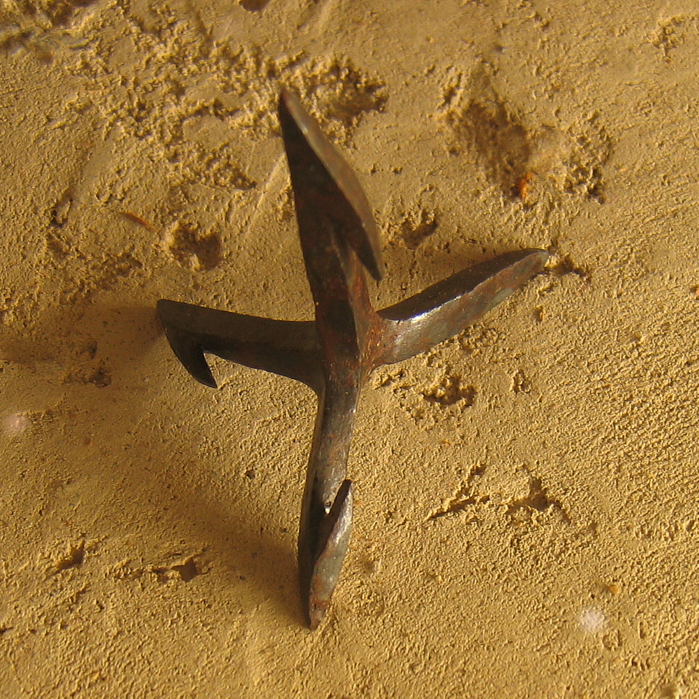 Antique Roman Caltrop made of iron.